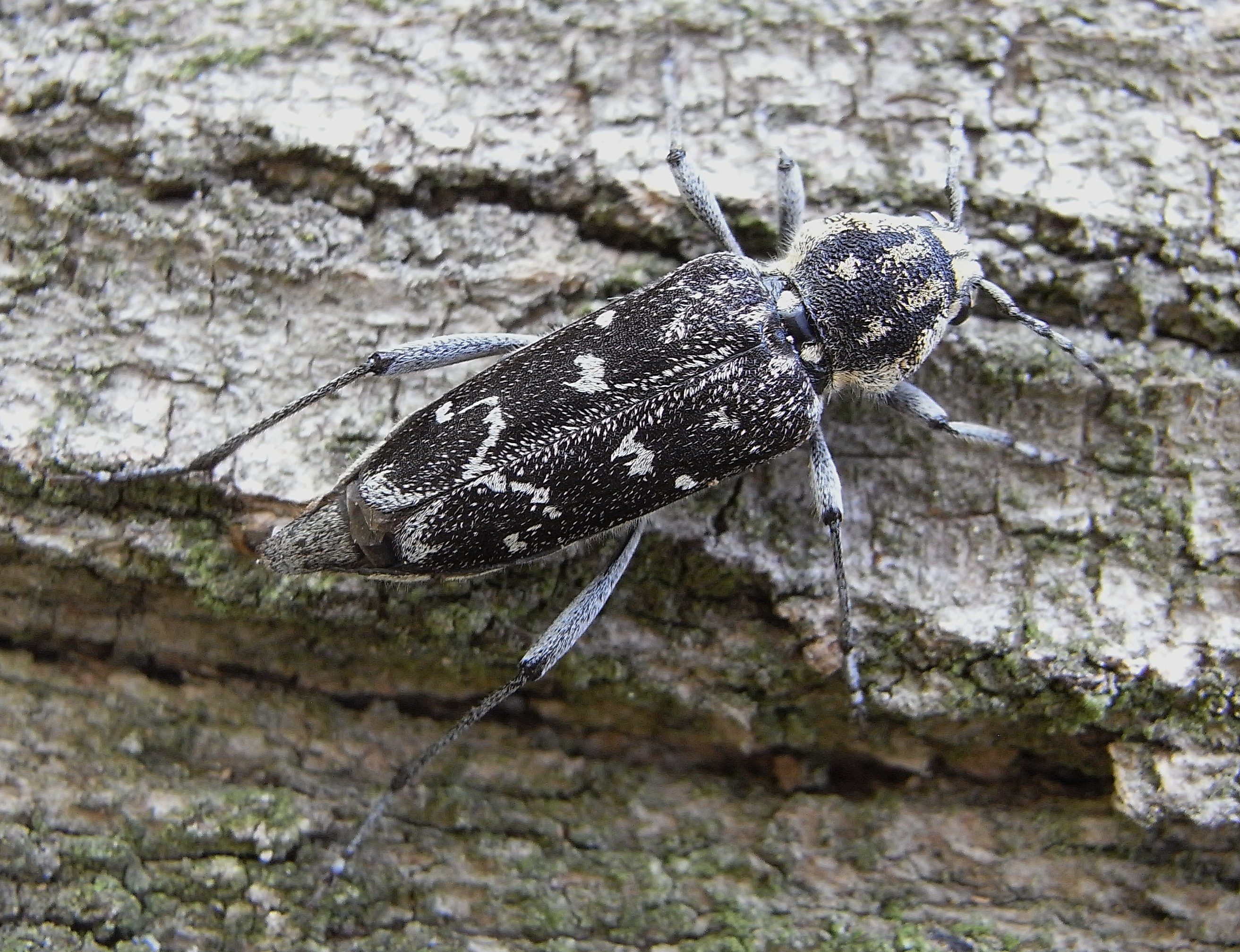 Xylotrechus rusticus from South-hungary, near Harkany, on 2010-05-06Ricoh R8